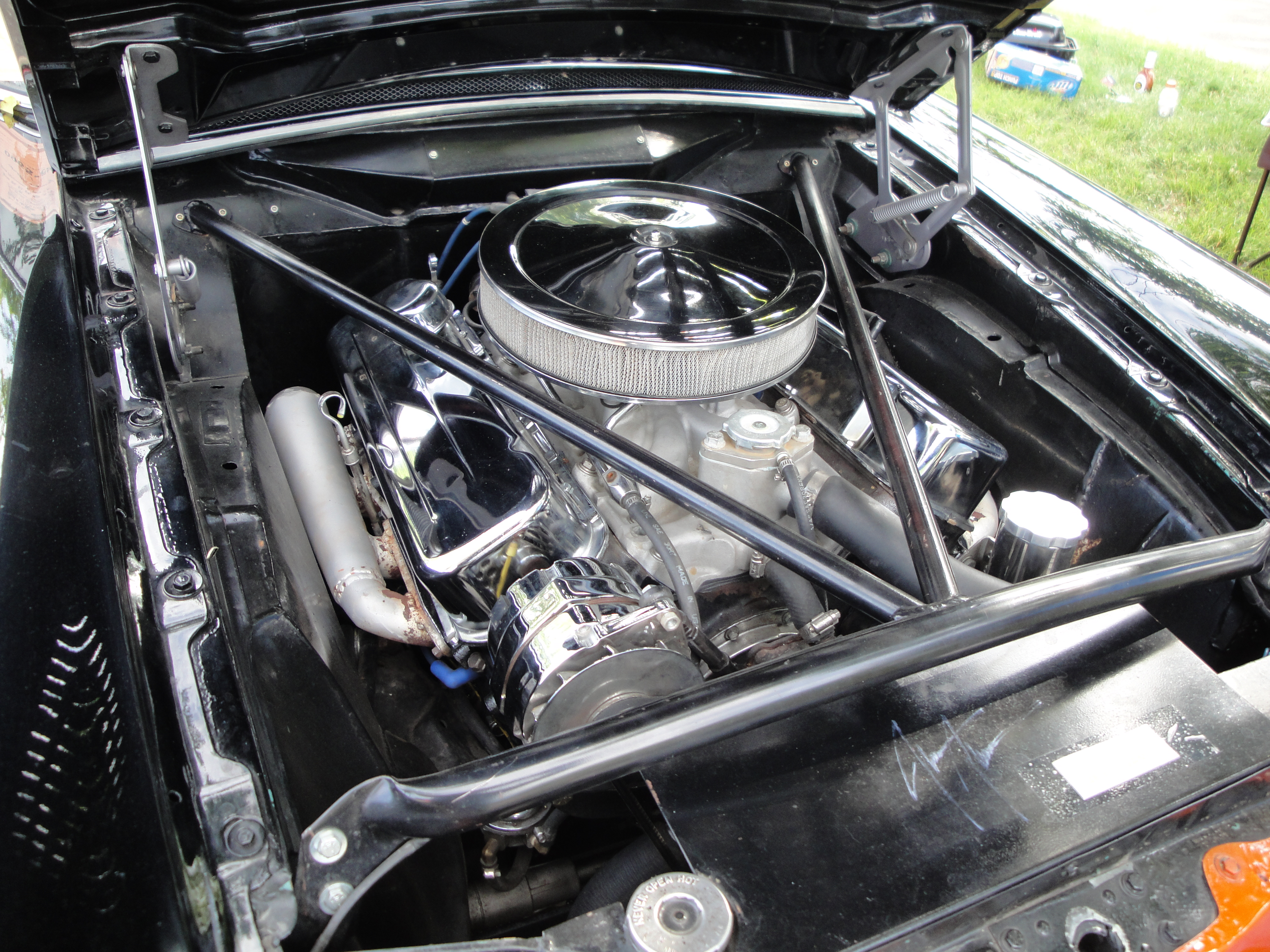 Modified 1960 Rambler American with a V8 engine. Minnesota Street Rod Association 39th Annual "Back to the Fifties", June 2012, Minnesota State Fairgrounds, St. Paul MN.